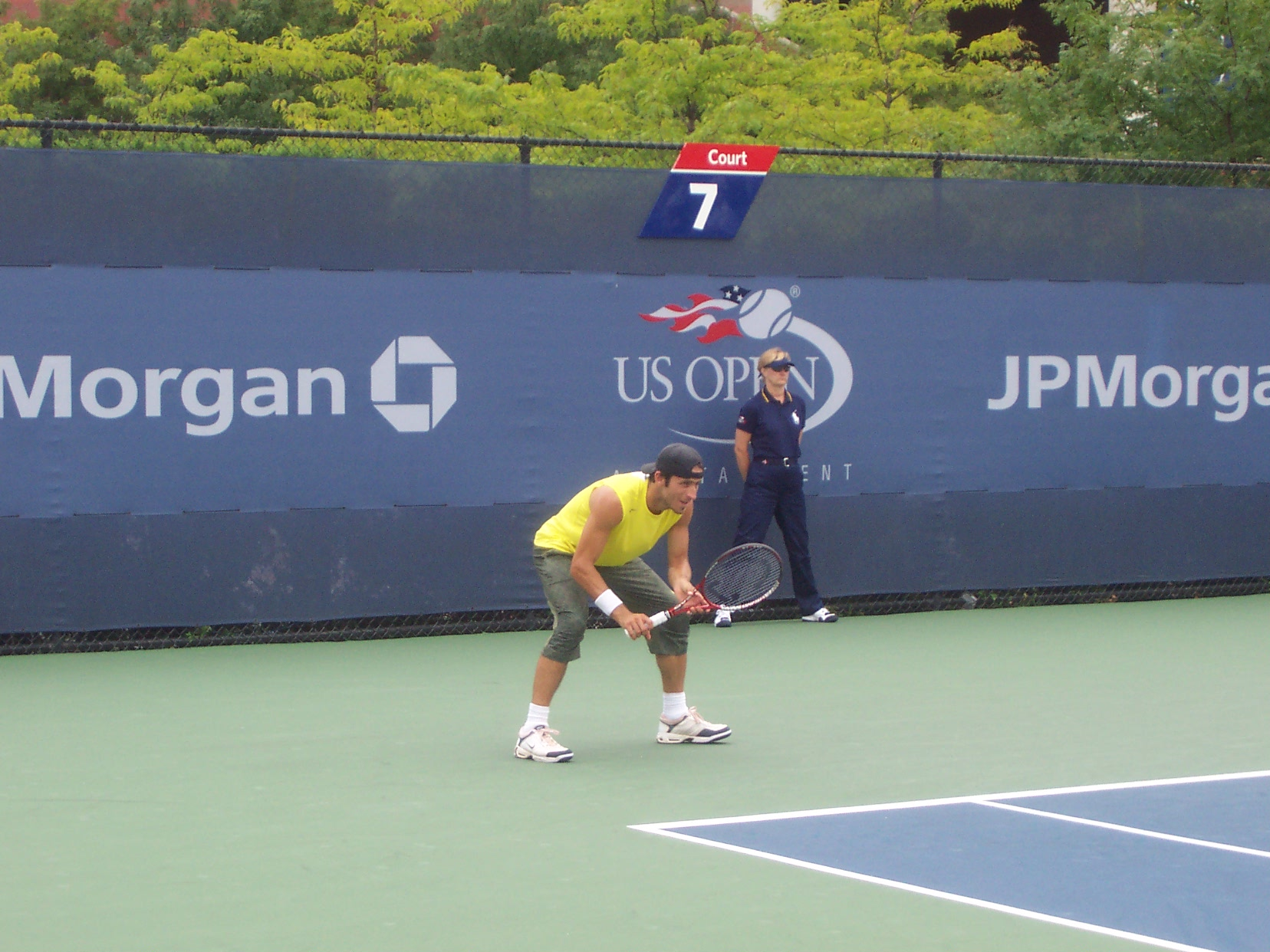 Konstantinos Economidis Playing At The 2007 US Open Qualifying Rounds